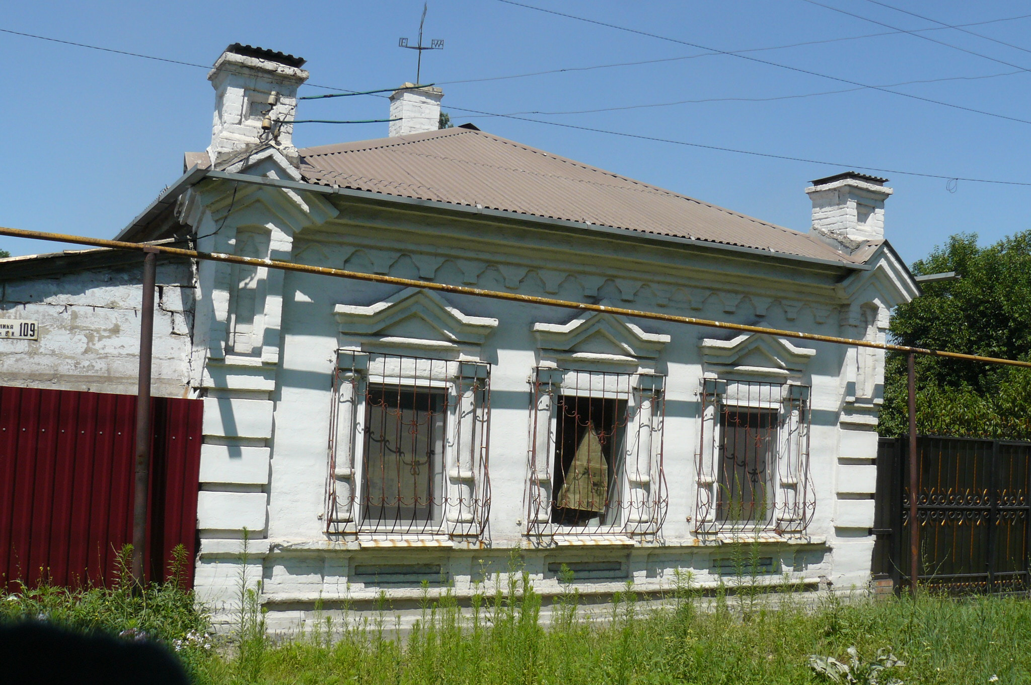 Cityscapes from Mariupol.